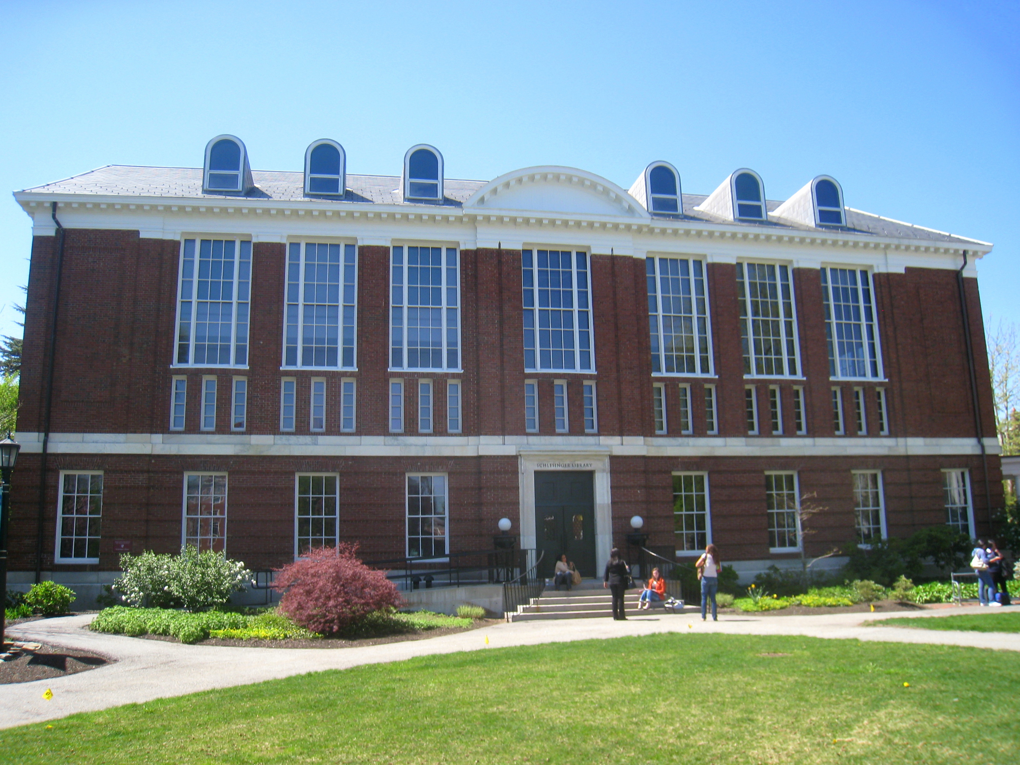 Schlesinger Library, Radcliffe Yard, Harvard University, Cambridge, Massachusetts, USA.